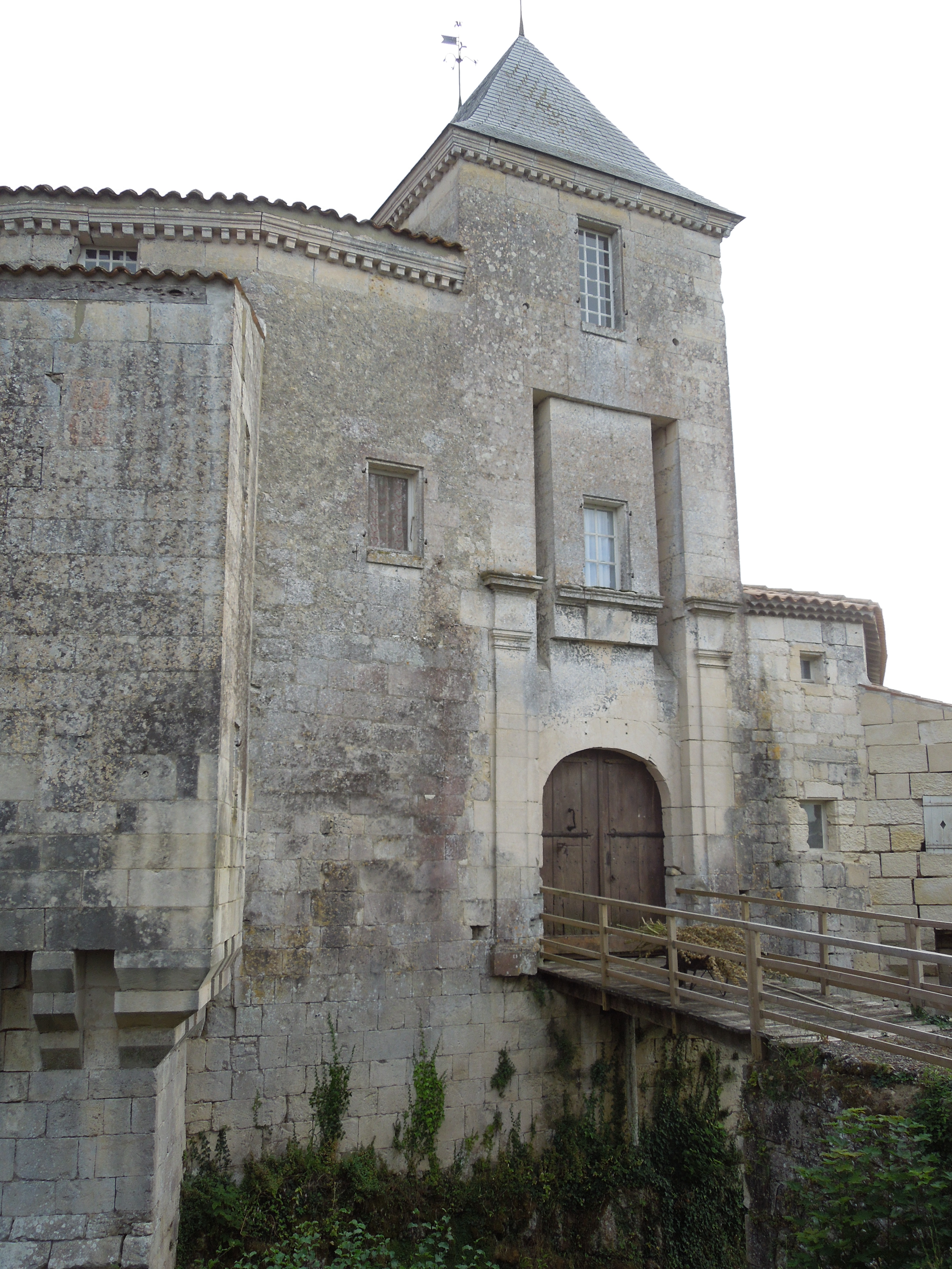 Château d'Ardennes, gateway on the northern side